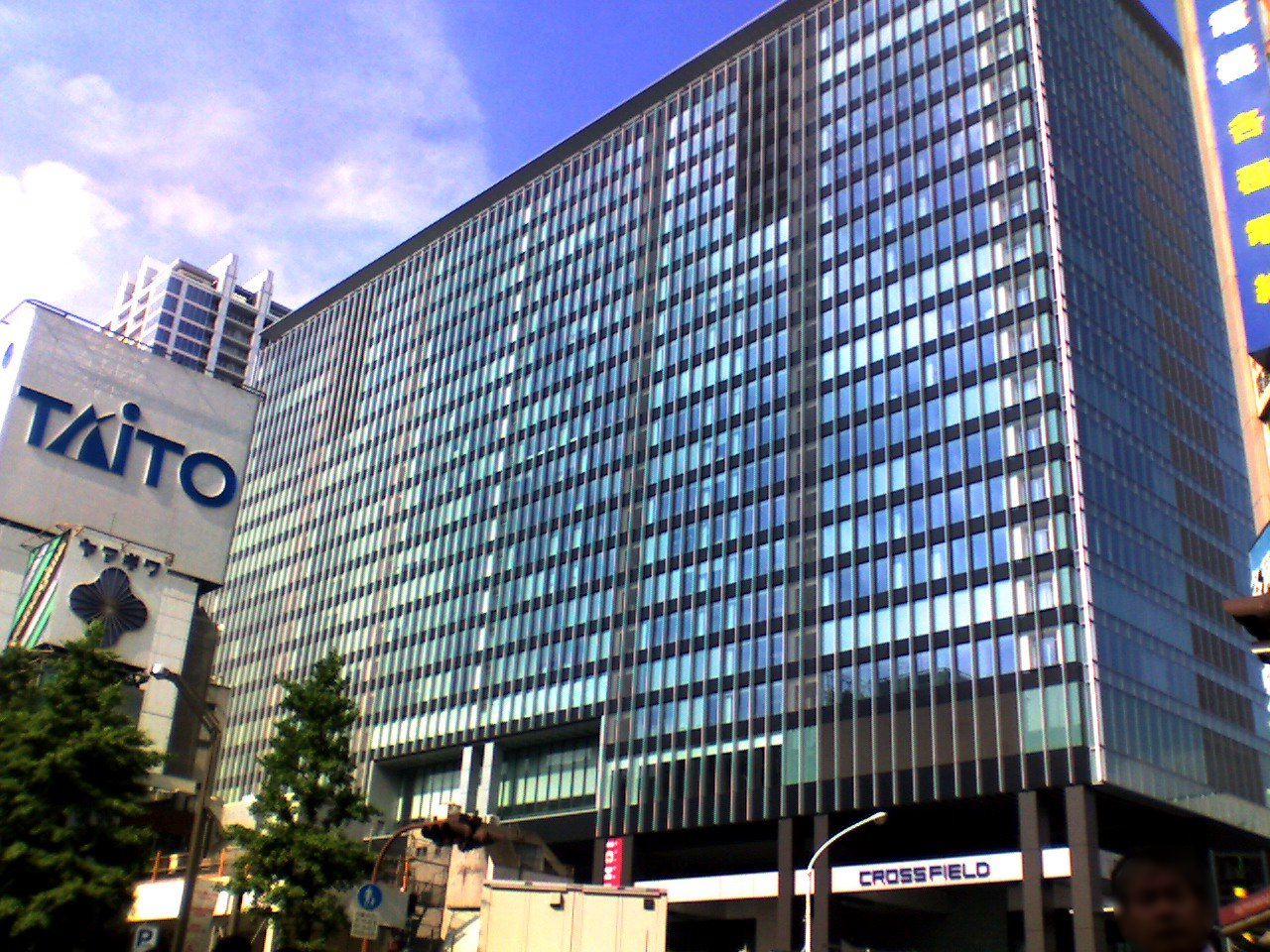 Akihabara UDX building